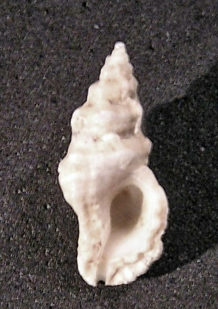 Dermomurex elizabethae (McGinty, 1940); family Muricidae; Bahamas